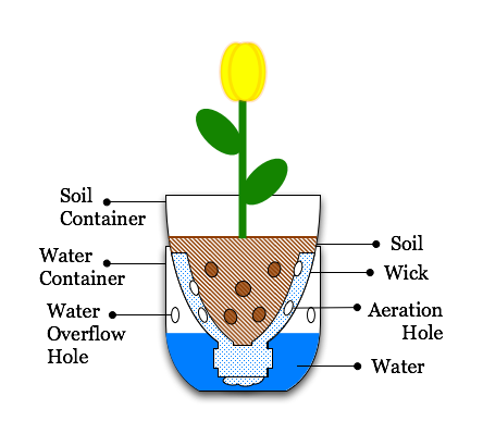 A simple illustration of a sub-irrigated planter made from a pop bottle. Major parts of the sub-irrigated planter are labeled.